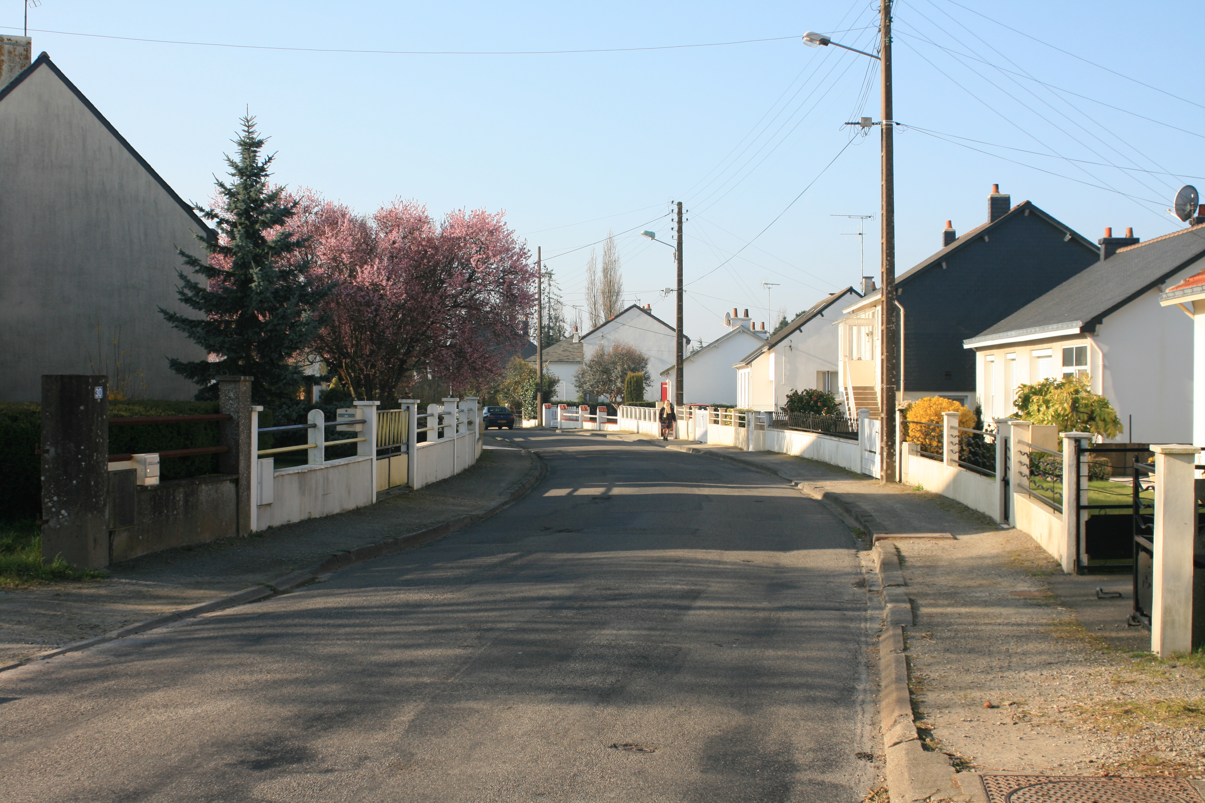 Example of housing in Savenay, Loire-Atlantique, France